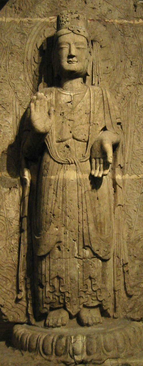 Northern Qi Bodhisattva, Changzi-xian, Shanxi, dated 552. Tokyo National Museum. Personal photograph, 2004.